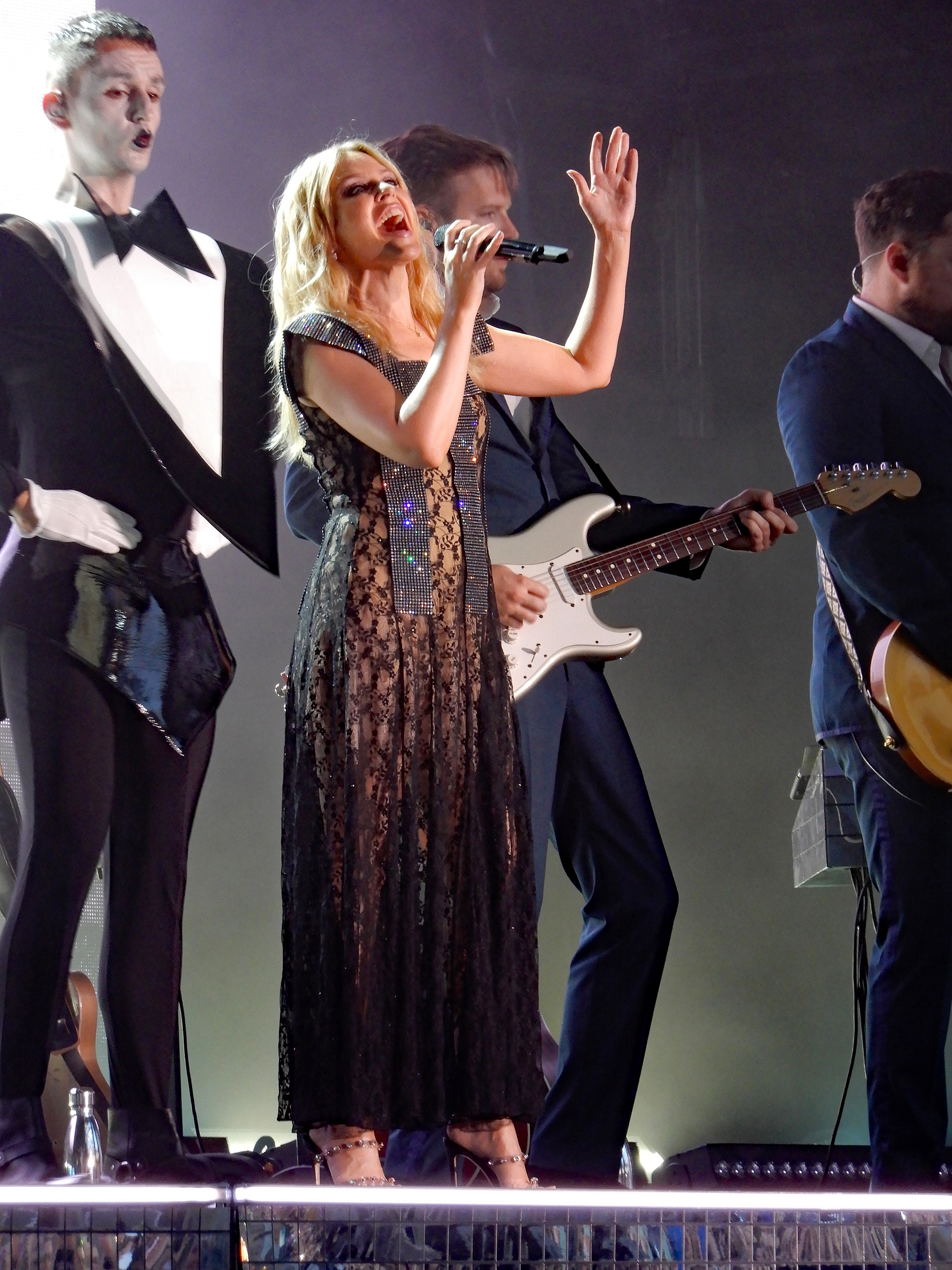 Kylie Minogue summer tour 2019